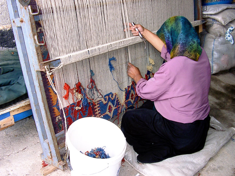 Traditional loom work by a woman in Konya, Turkey